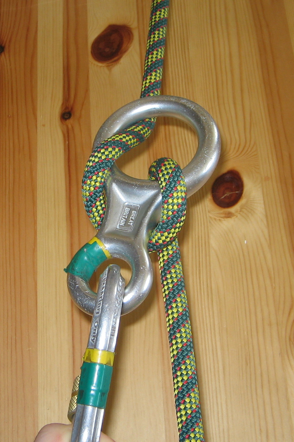 A Figure Eight descender, braking. Uploaded by Stewart Adcock, 29 May 2005.